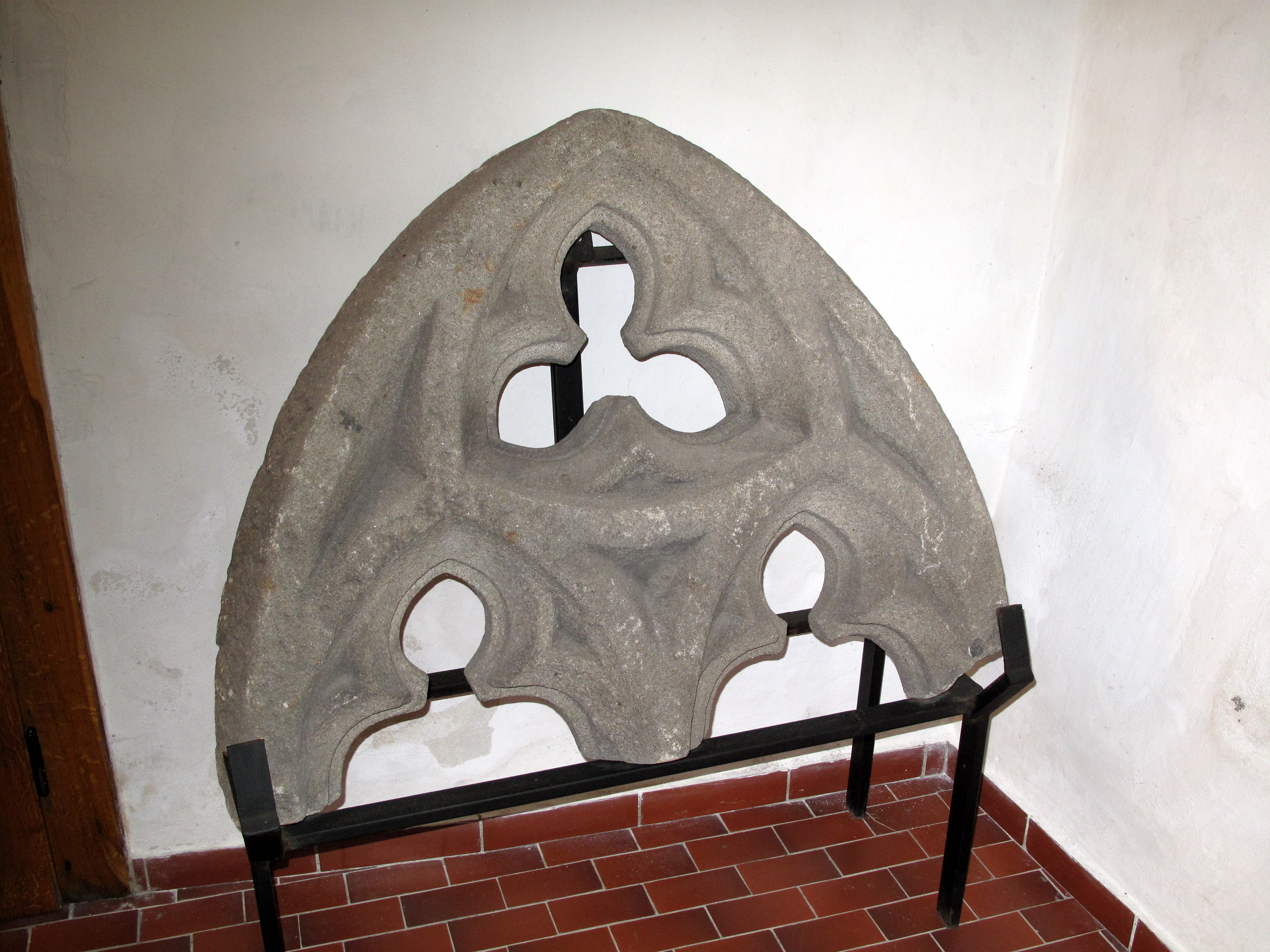 Kámen, Pelhřimov District, Czechia. Interior of the castle.